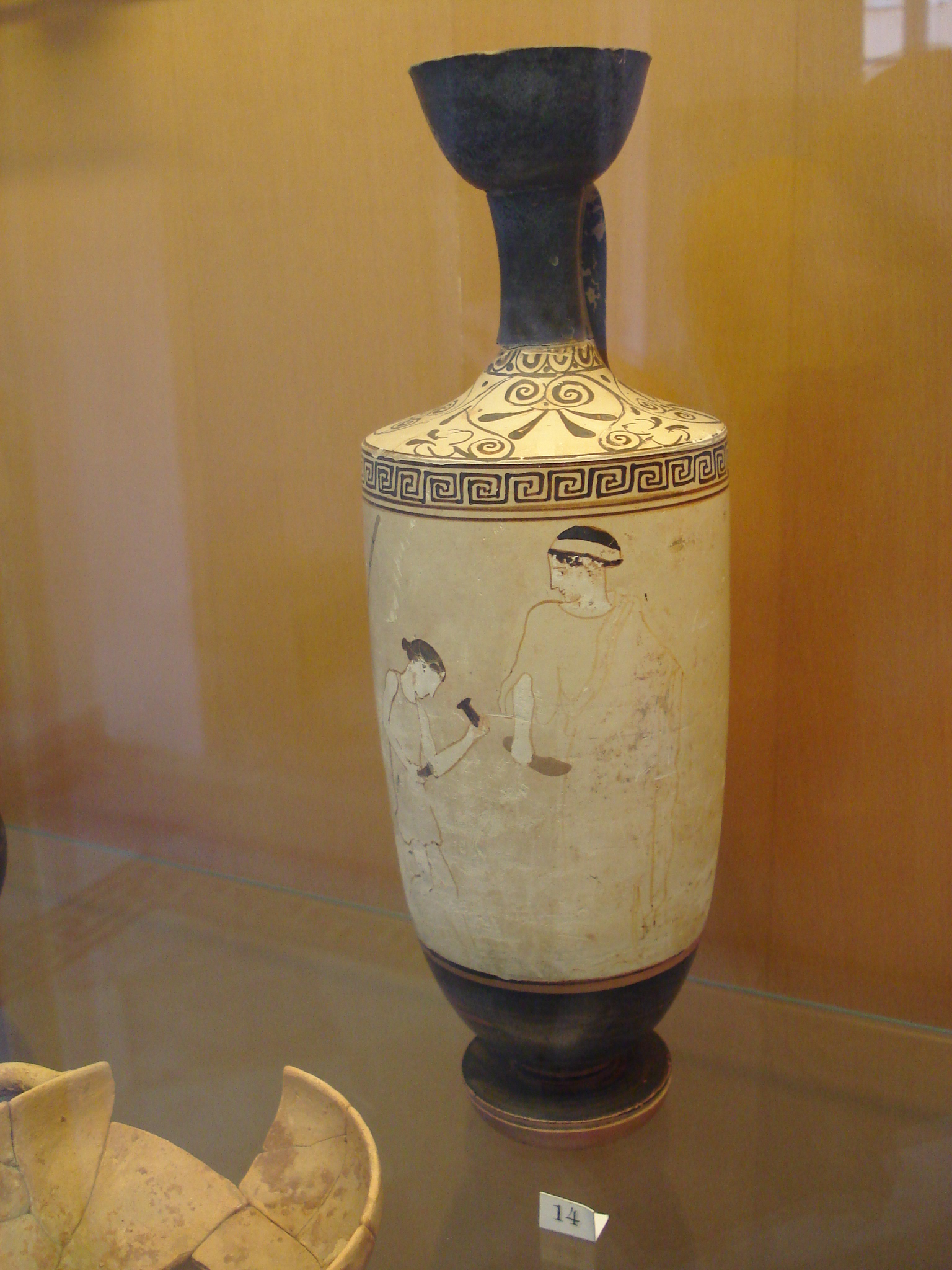 Lady holding a sandal to punish her young slave, who holds two small vases. White-ground black-figure lekythos. Regional Archaeological Museum in Palermo.